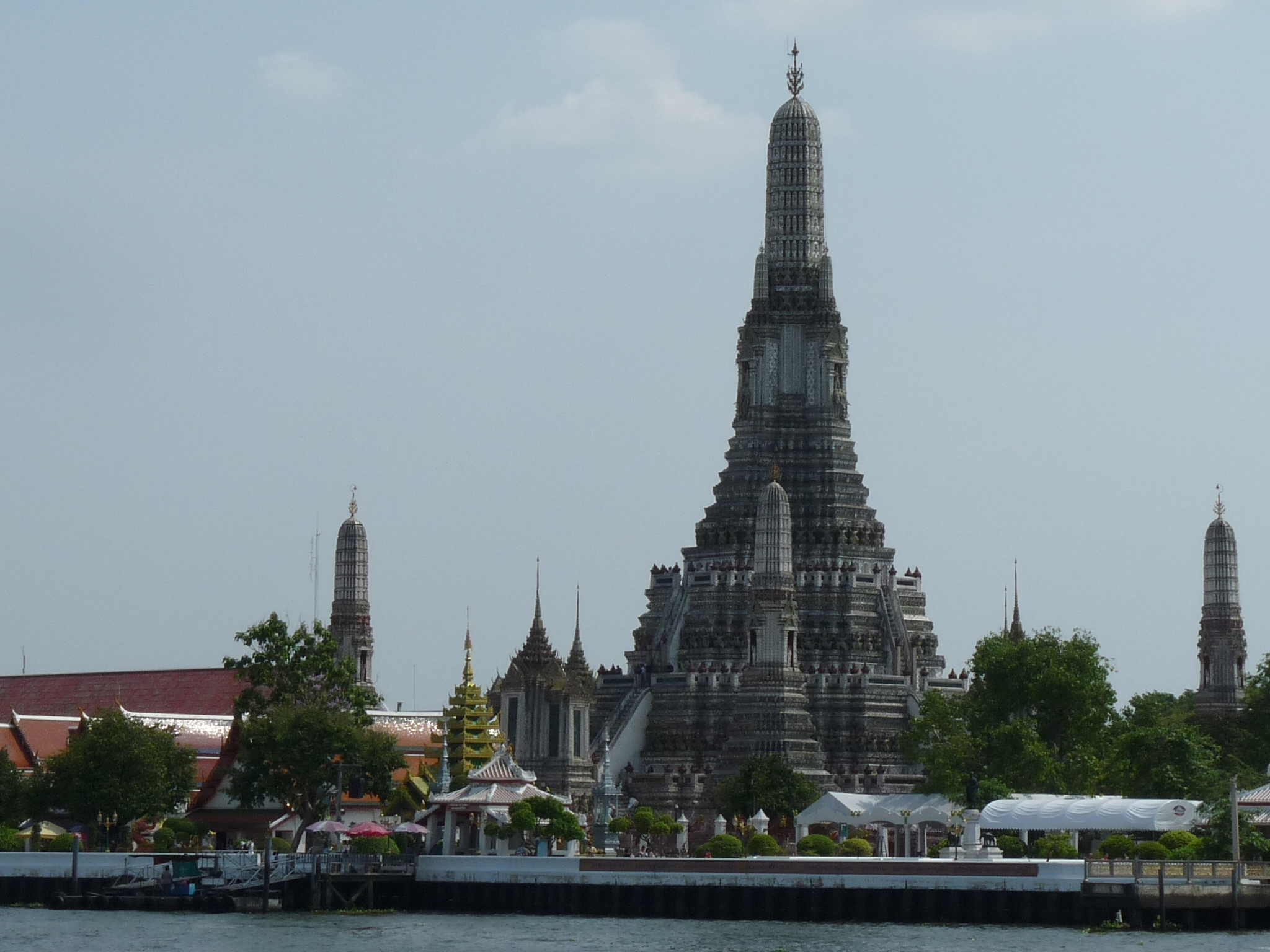 The buddhist temple Wat Arun in Bangkok.